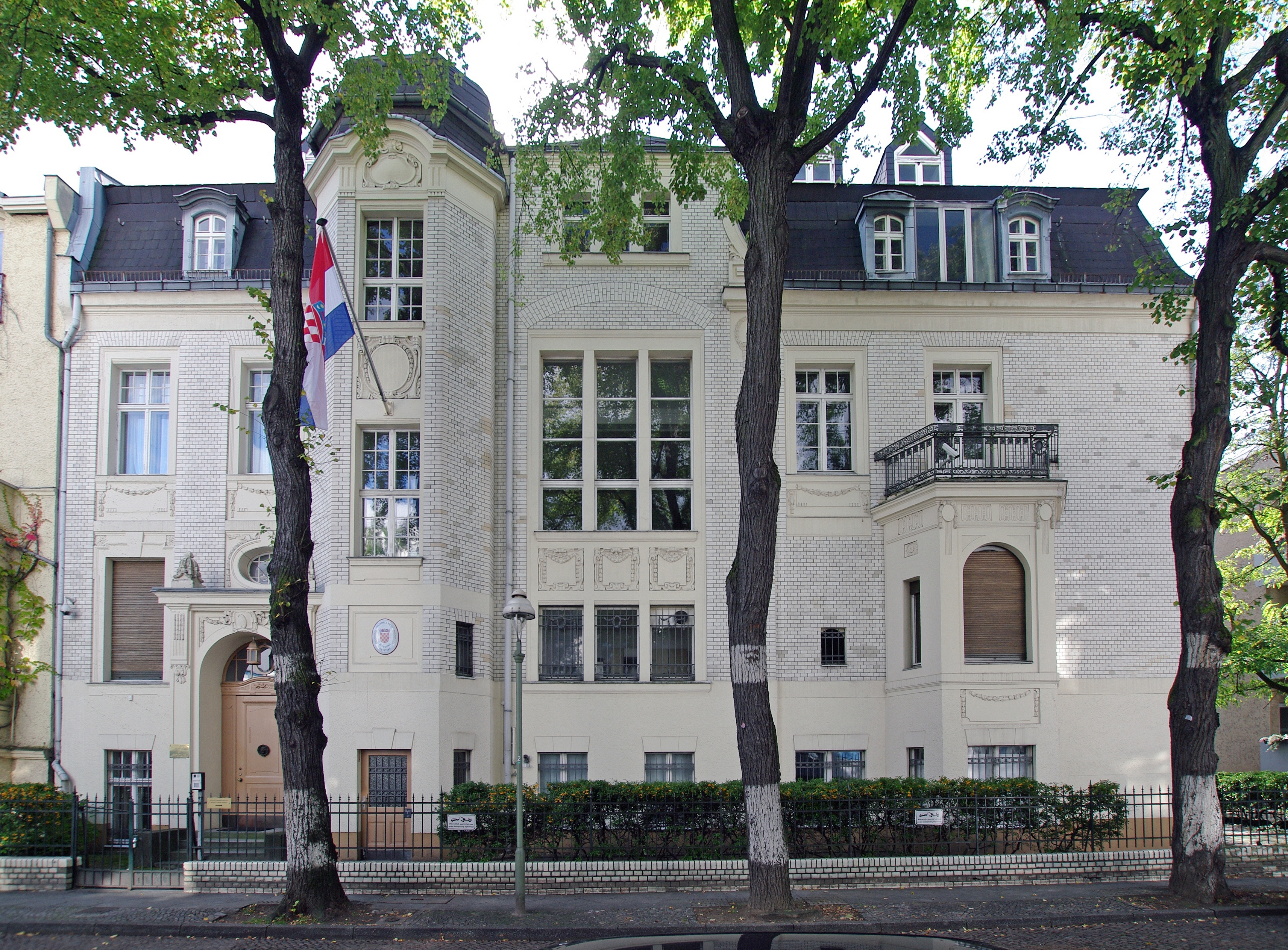 Croatian Embassy in Germany, Ahornstraße, Berlin-Schöneberg.